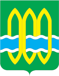 Kurovskoye (Moscow oblast), proposal coat of arms (1990th)